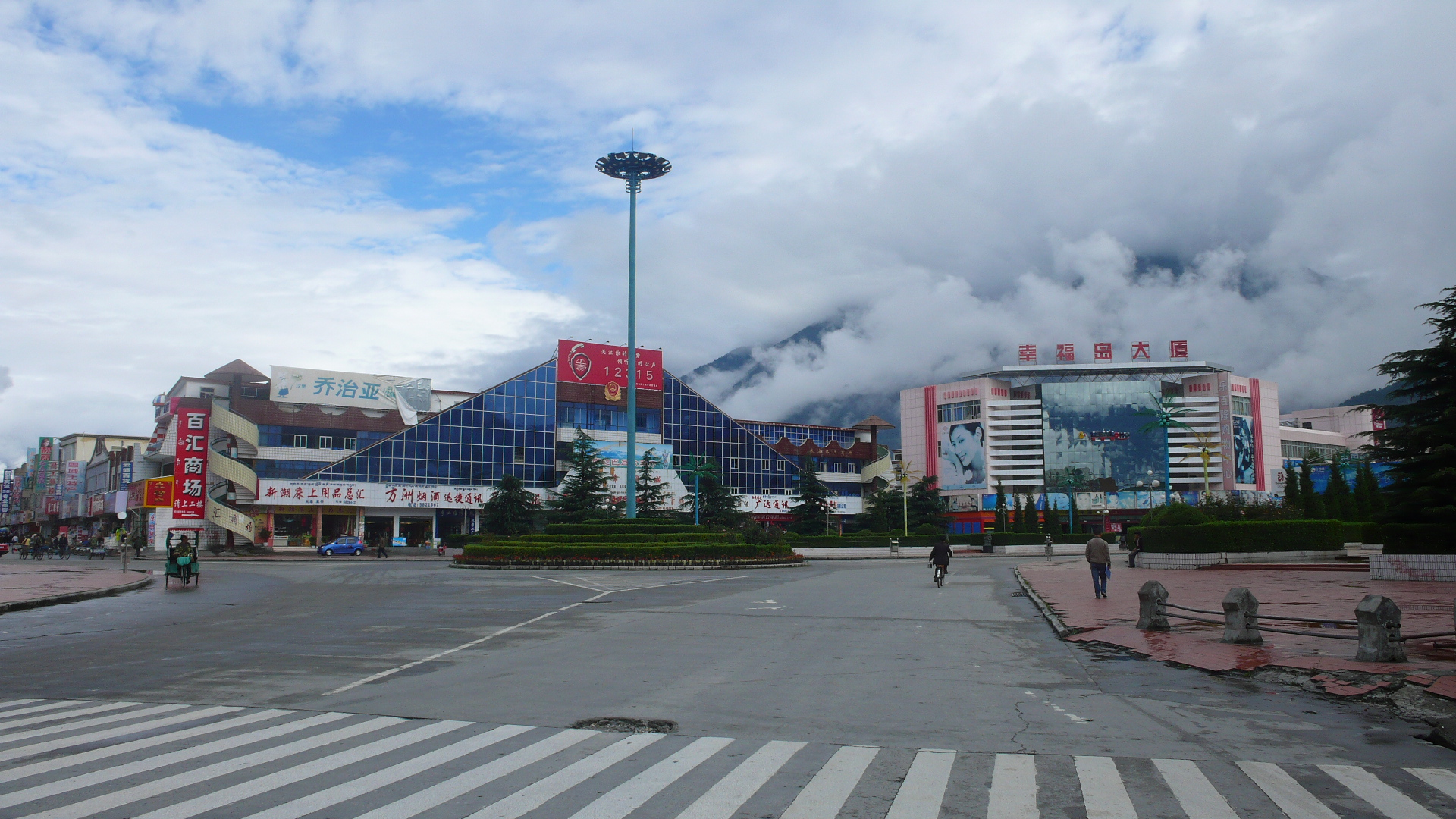 Bayi Town, Tibet